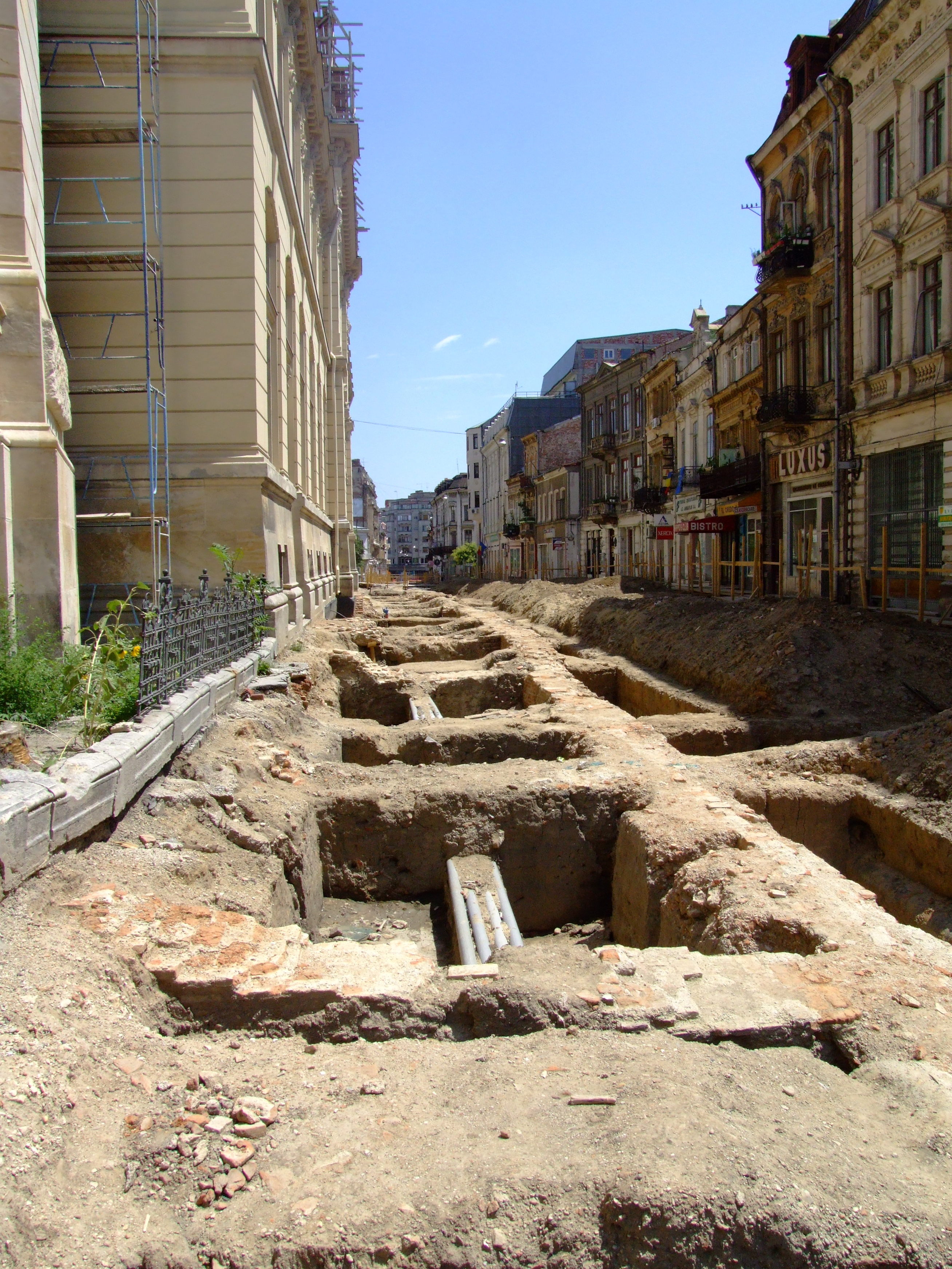 Romanian Archeology Near the National Hystory Museum - 2007